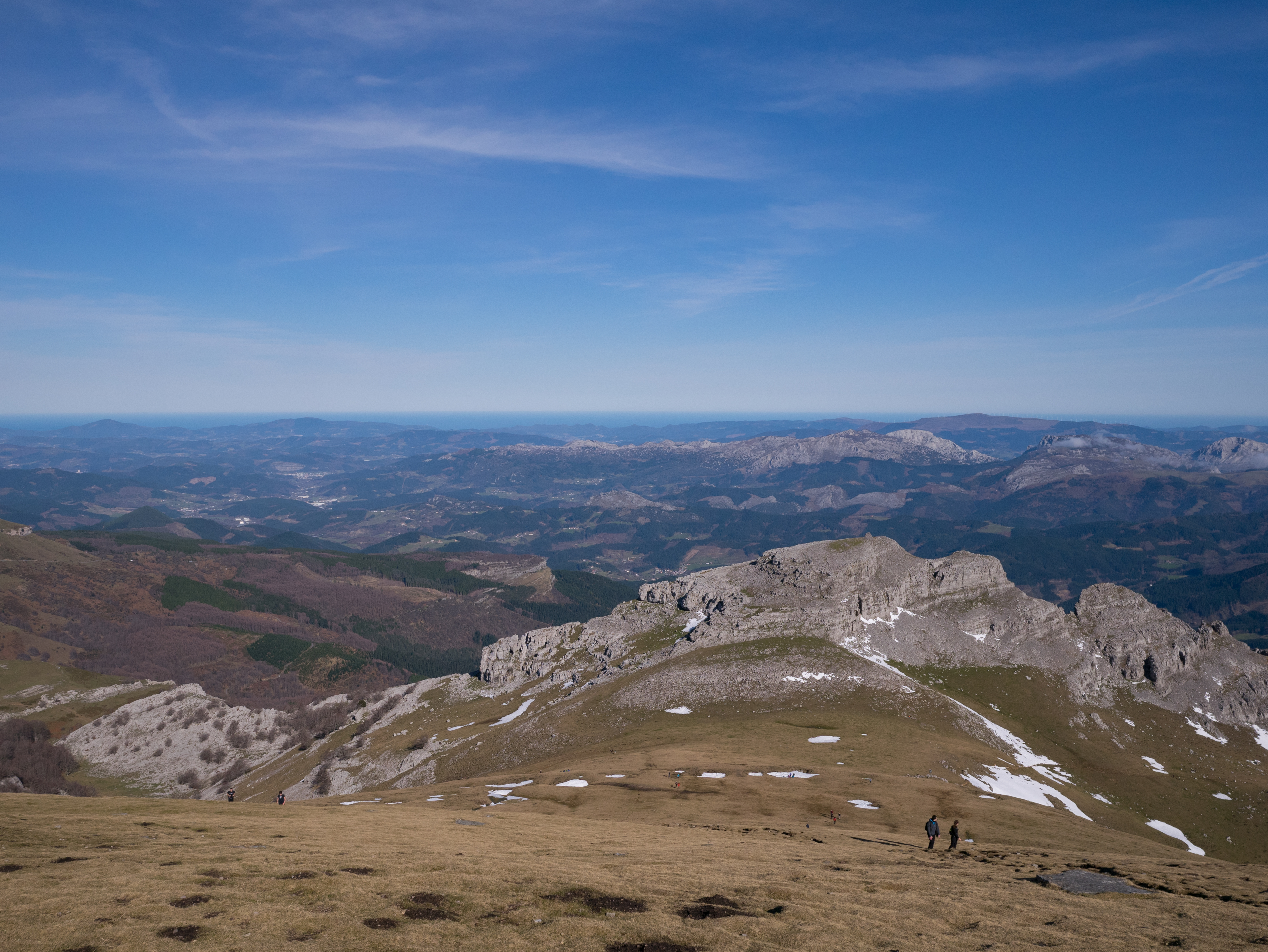 Mount Aldamin, viewed from Gorbea. Panoramic view over the Basque Country, Spain.